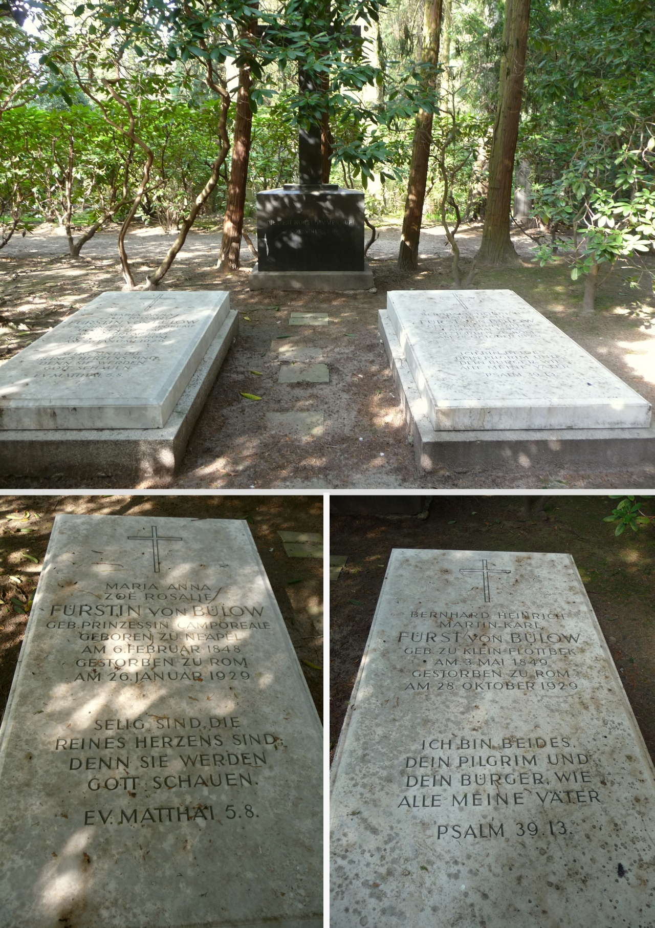 cemetery Hamburg-Nienstedten, tomb of Bernhard von Buelow and his wife